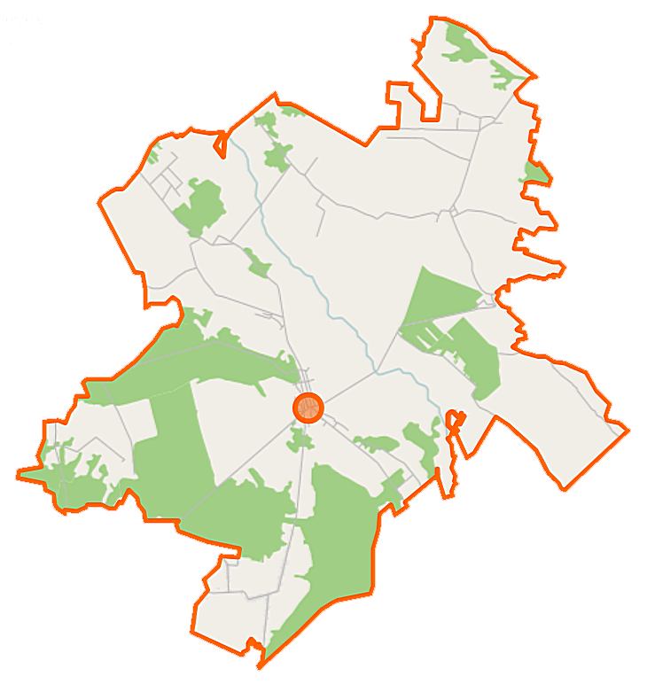 Map of Gmina Jednorożec, Poland This map of Jednorożec (gmina) was created from OpenStreetMap project data, collected by the community. This map may be incomplete, and may contain errors. Don't rely solely on it for navigation. Border coordinates53.266920.8898←↕→21.223553.0544